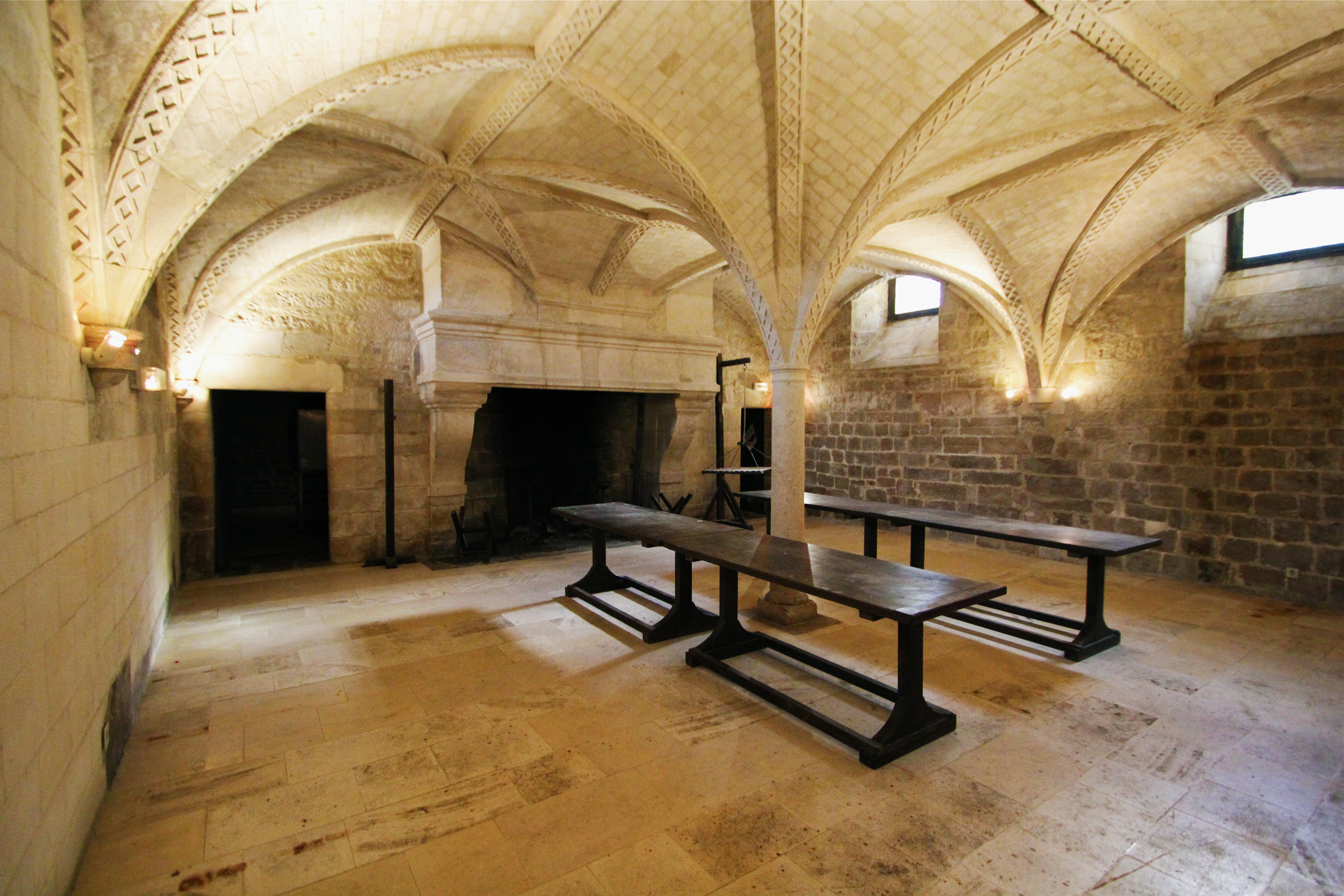 Kitchens in castle of Coulonges-sur-l'Autize in Deux-Sèvres, France.